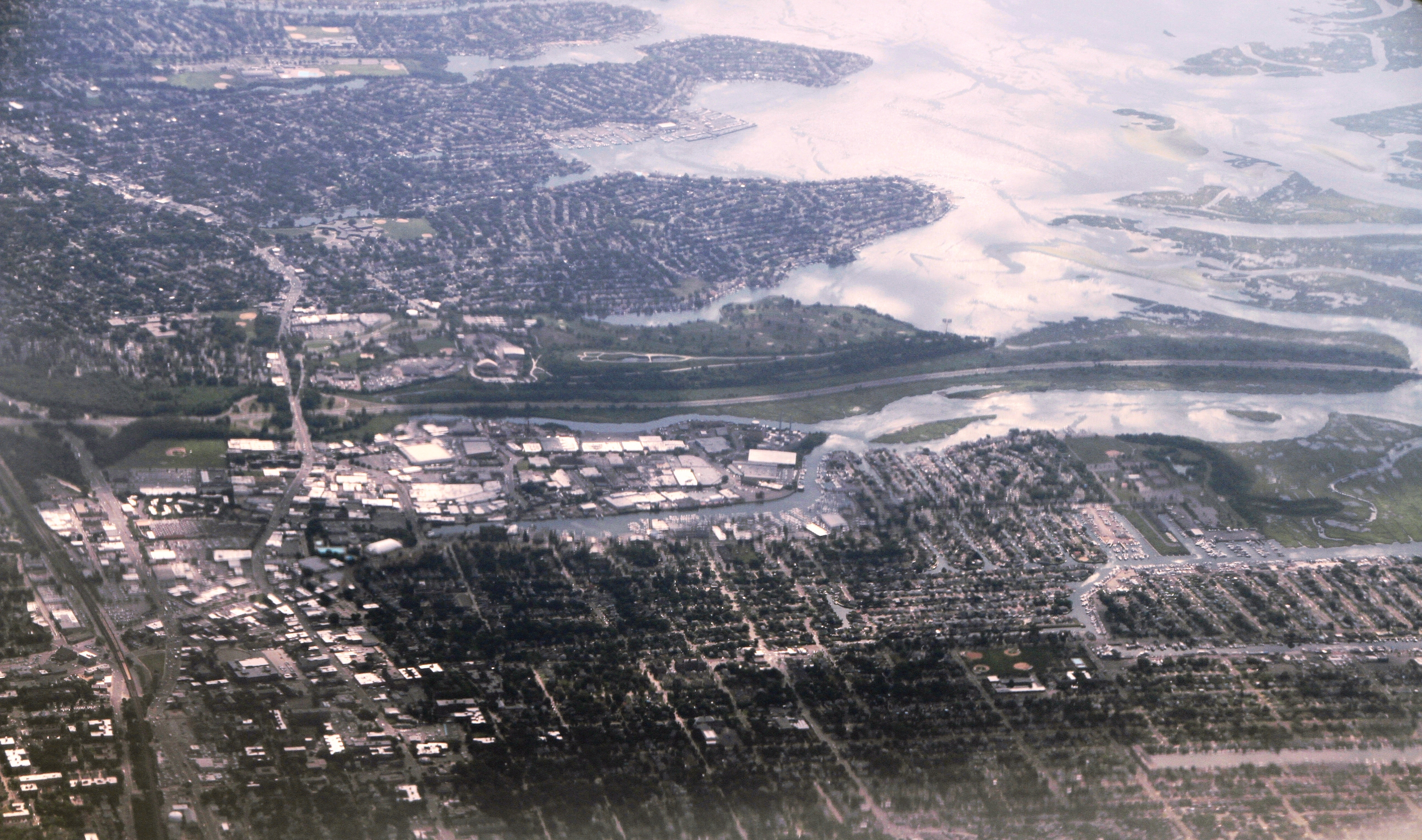 Aerial view from the coastal area of western Long island, New York.